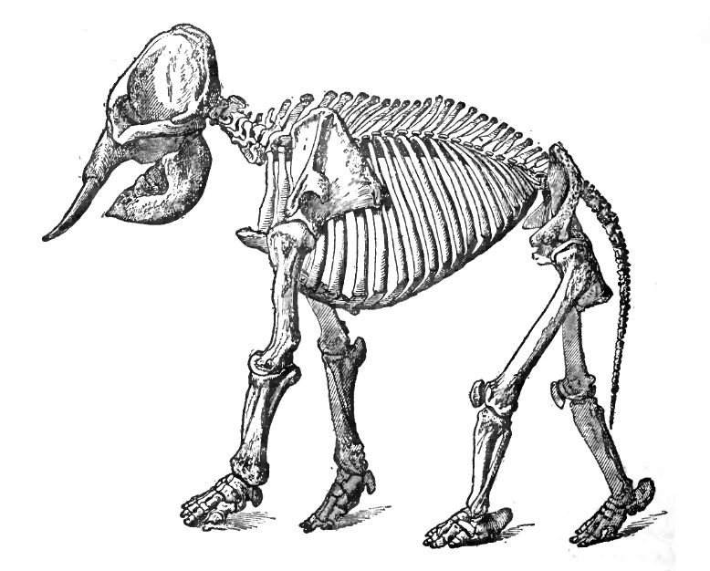 Skeleton of Elephant.